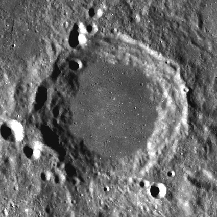 Berosus crater LROC image